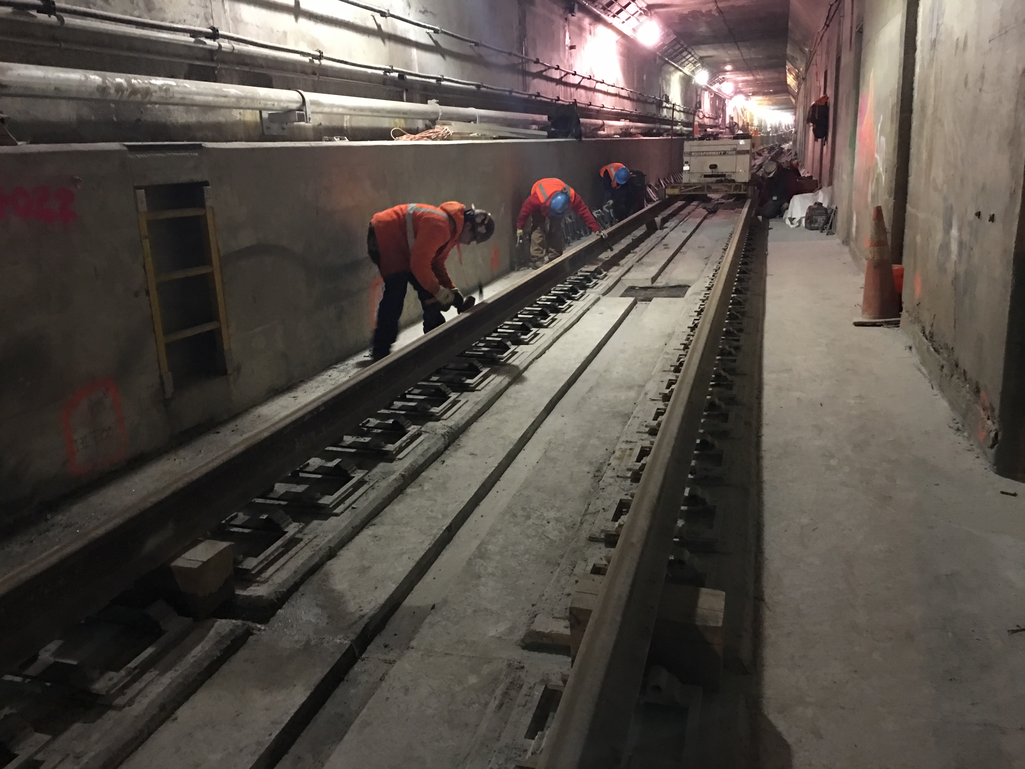 Direct Fixation Fastener track installed in the 63rd Street tunnel. (CM007, 1-22-2018)